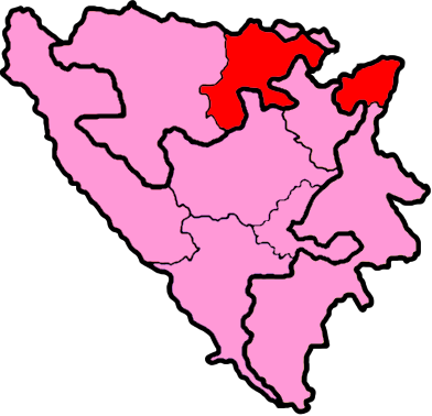 The second electoral unit of Republika Srpska (HoRBiH) shown within Bosnia and Herzegovina.